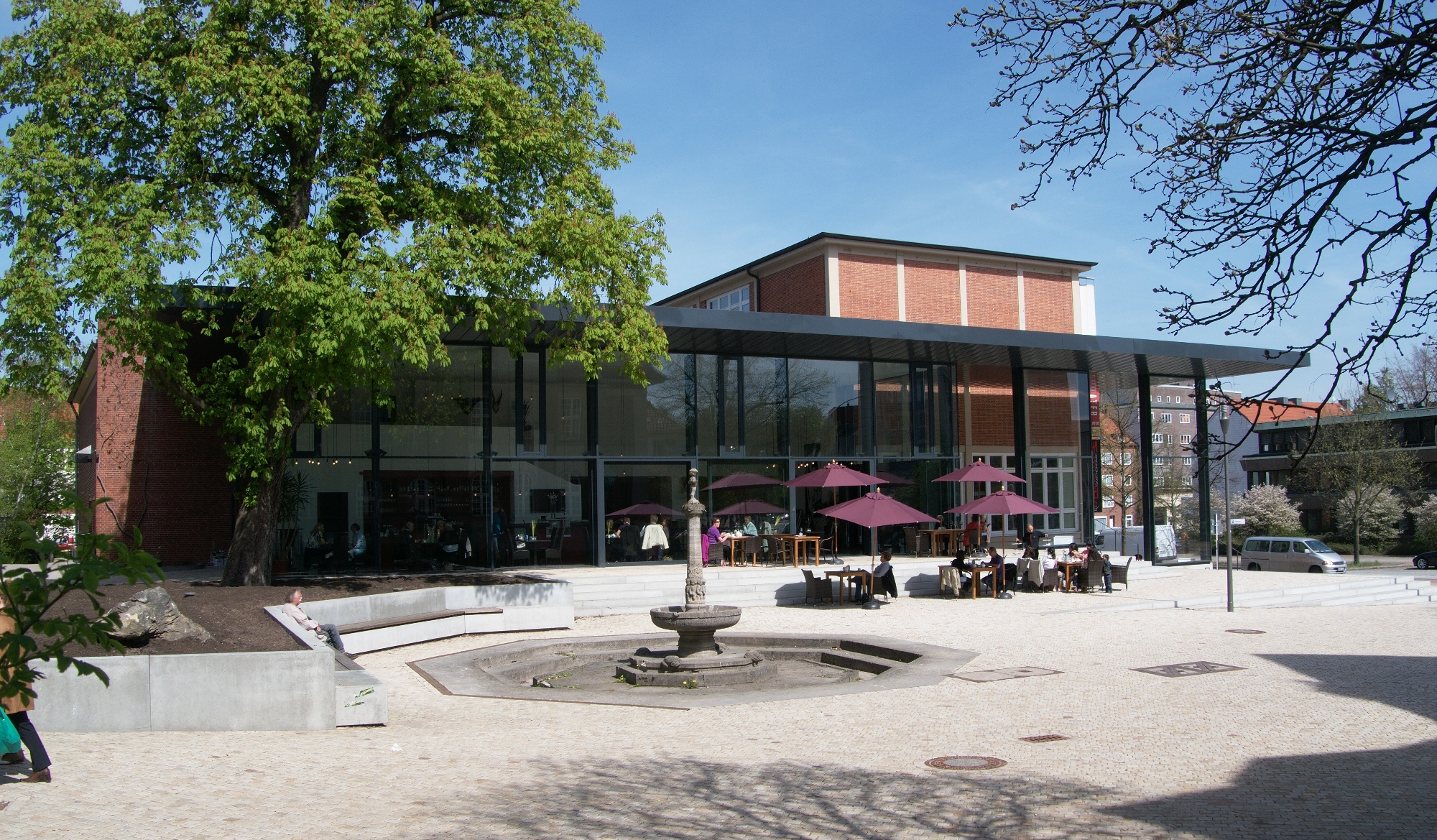 Archäologisches Museums Hamburg - Helms-Museum, entry main building, Hamburg-Harburg, Germany and Thörl-foutain in the front.